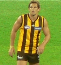 Luke Hodge, Australian rules footballer I took this photo. Please don't delete it. --Rulesfan (talk) 23:54, 15 January 2008 (UTC)